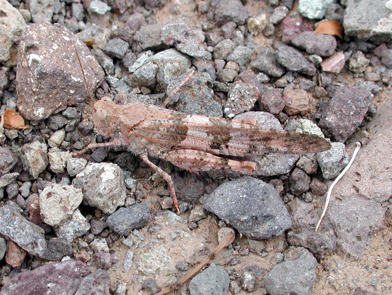 Pallid-winged Grasshopper. Maricopa Co., Arizona, USA